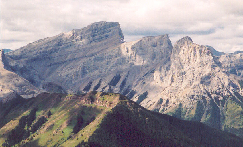 Three Sisters in Alberta, Canada. Photo taken from the summit of Pigeon Mountain.